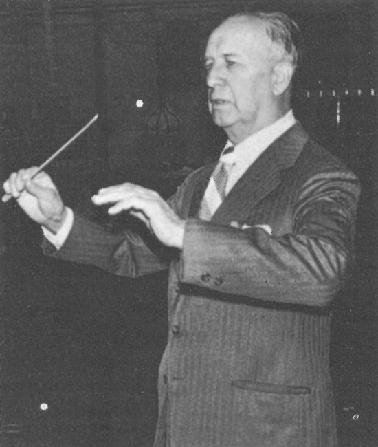 Photograph of the Finnish conductor Mikko von Deringer (1904–1981).